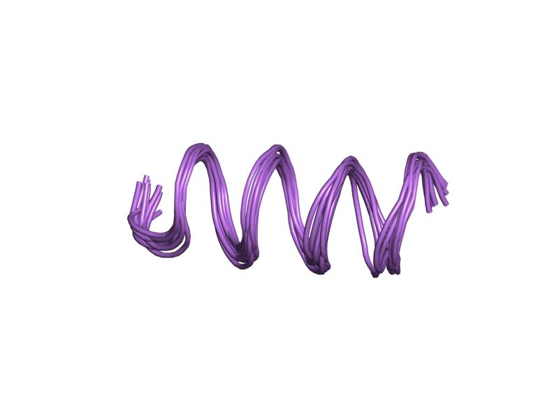 Cartoon representation of the molecular structure of protein registered with 1sut code.